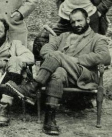 1921 Mount Everest reconnaissance expedition team members. Taken at 17,300 advanced base camp. Standing (l-r): Wollaston. Howard-Bury. Heron. Raeburn. Sitting (l-r): Mallory. Wheeler. Bullock. Morshead. Published in Howard-Bury, C. K. (1922). Mount Everest the Reconnaissance, 1921 (1 ed.). New York, Longman & Green, page 178